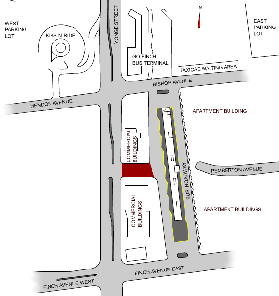 A map of the Finch subway station bus terminal and surrounding facilities in Toronto, Canada. The maroon path is the Pemberton exit completed by the end of 2006. The terminal is the facility in the middle-right of the image. The map was drawn from scratch by me, based on a press release diagram from the Toronto Transit Commission, and satellite photos from Google. TheHYPO 09:22, 12 June 2006 (UTC)